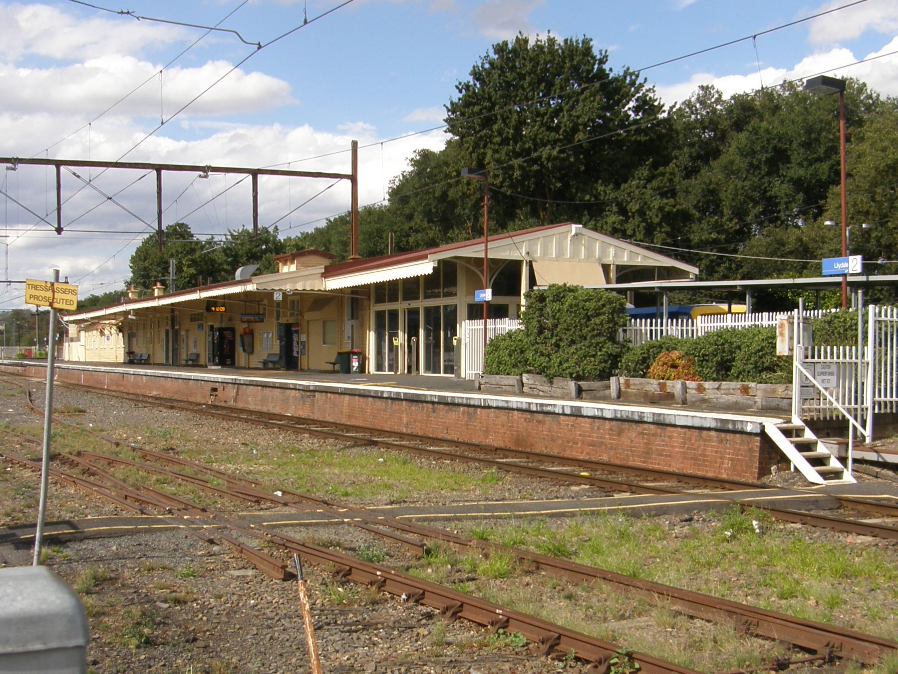 Photograph of Lilydale railway station, Victoria.